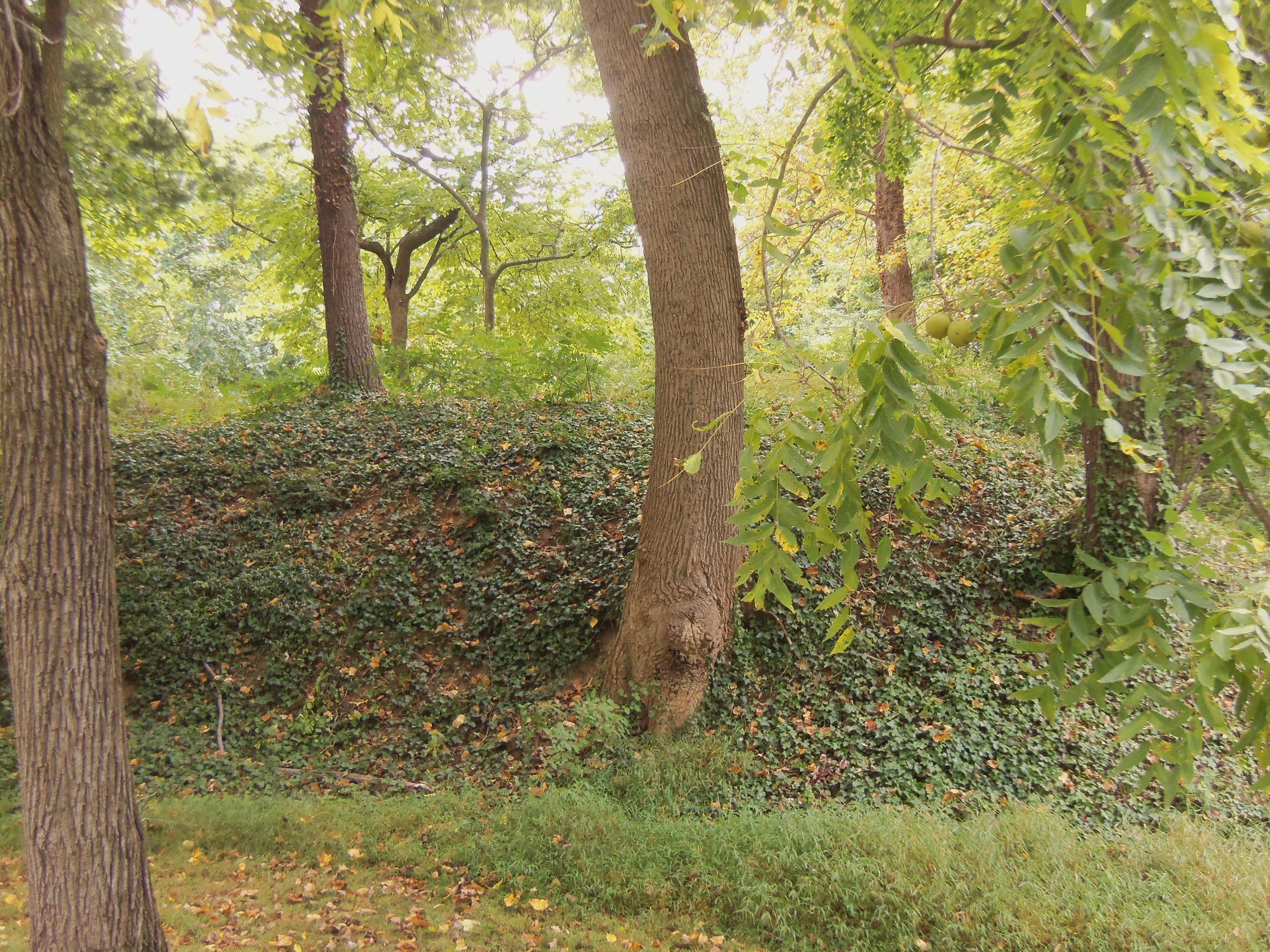 The earthworks at Fort C. F. Smith Historic District, a Civil War era fortress that protected Washington, D.C., located in Arlington, Virginia.